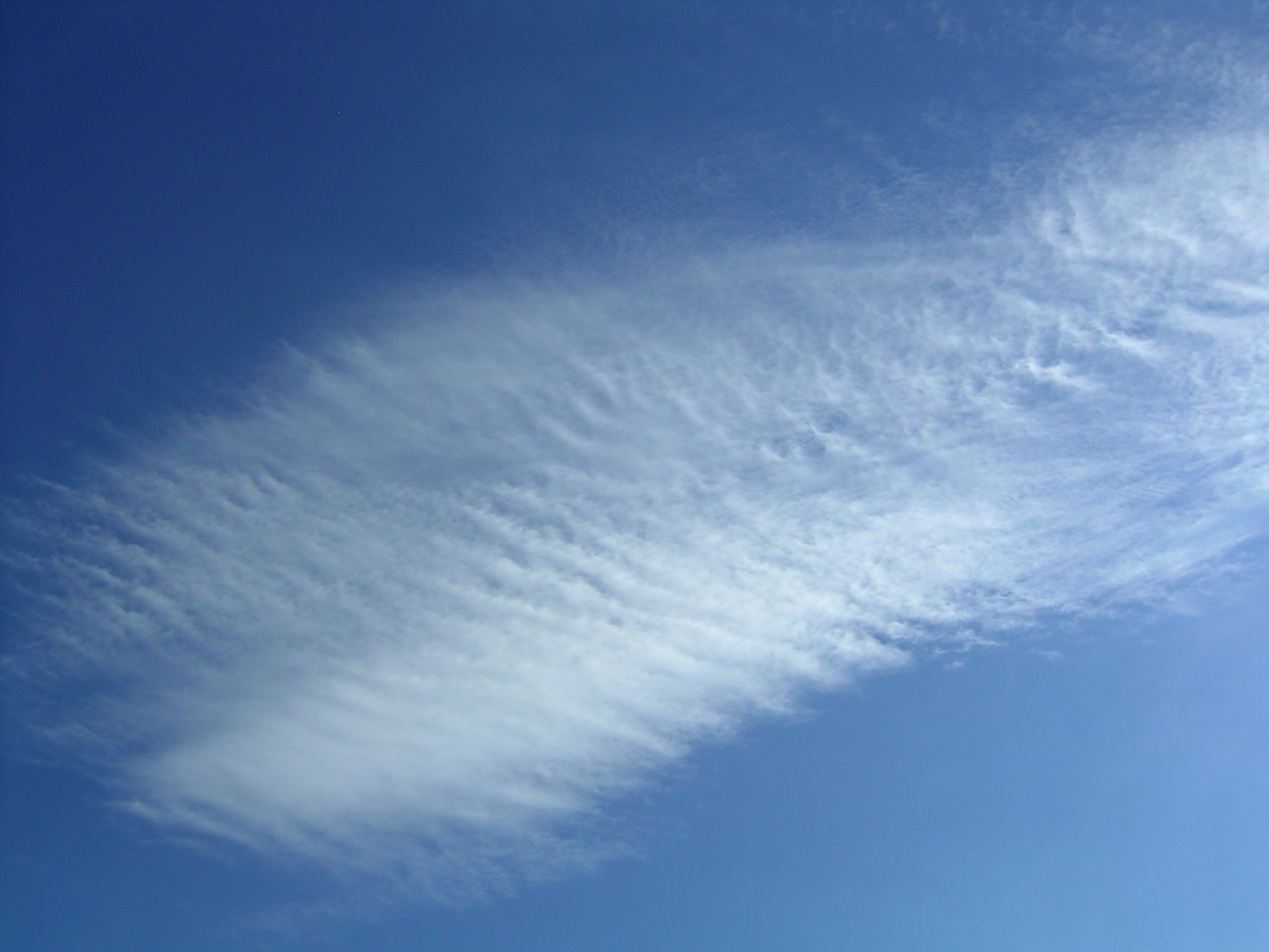 Cirrostratus undulatus in summer.